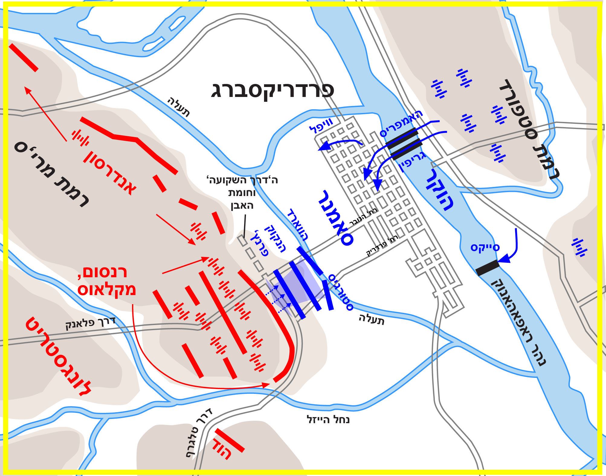 Map of the Battle of Fredericksburg of the American Civil War, overview. Drawn in Adobe Illustrator CS5 by Hal Jespersen. Graphic source file is available at